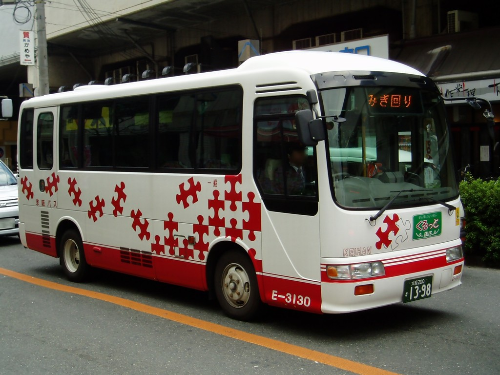 Hino Liesse for Keihanbus,use for "KURUTTO BUS" car number e-3130 usual using